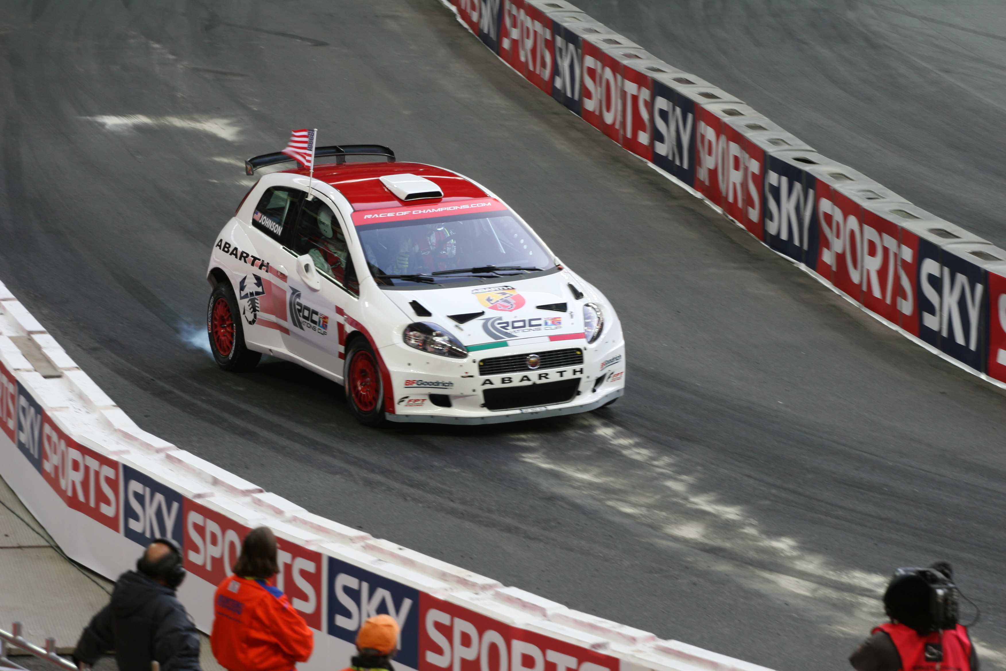 Jimmie Johnson driving a Fiat Grande Punto S2000 Abarth at the 2007 Race of Champions at Wembley Stadium.